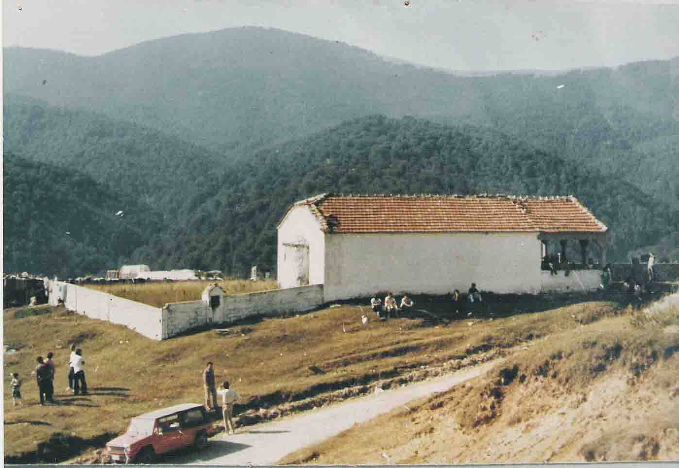 St. Athanasius church in Fteri, Pieria, Greece